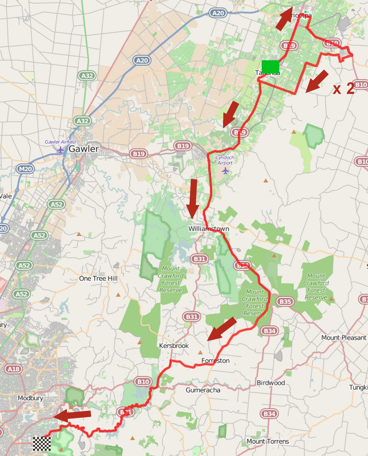 Parcours de la première étape du Tour Down Under 2015. This map may be incomplete, and may contain errors. Don't rely solely on it for navigation.